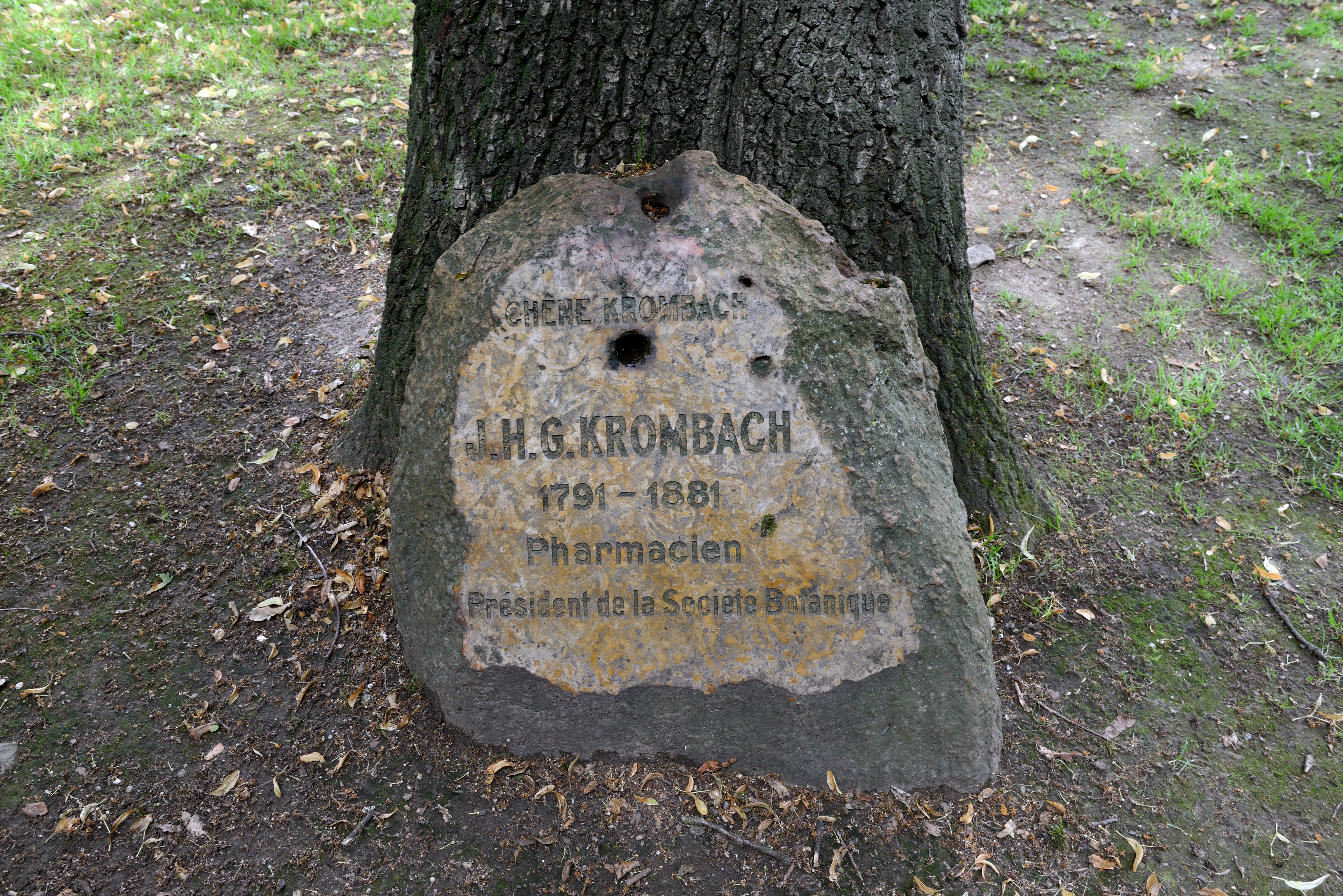 Luxembourg City: Jean-Henri-Guillaume Krombach (1791-1881) Memorial at the foot of the so-called Krombach-Oak.